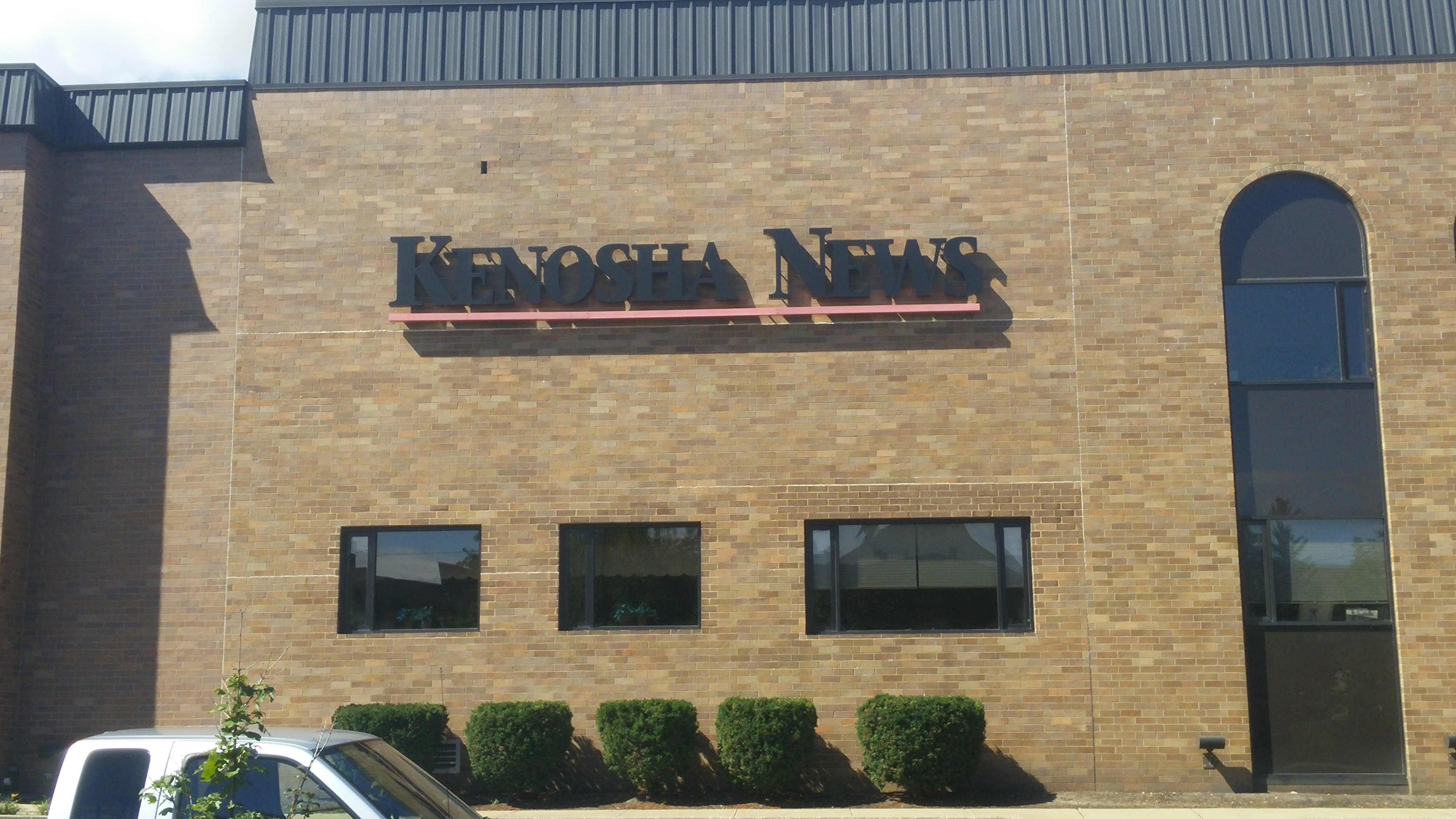 This is a photograph of the Kenosha News Building.